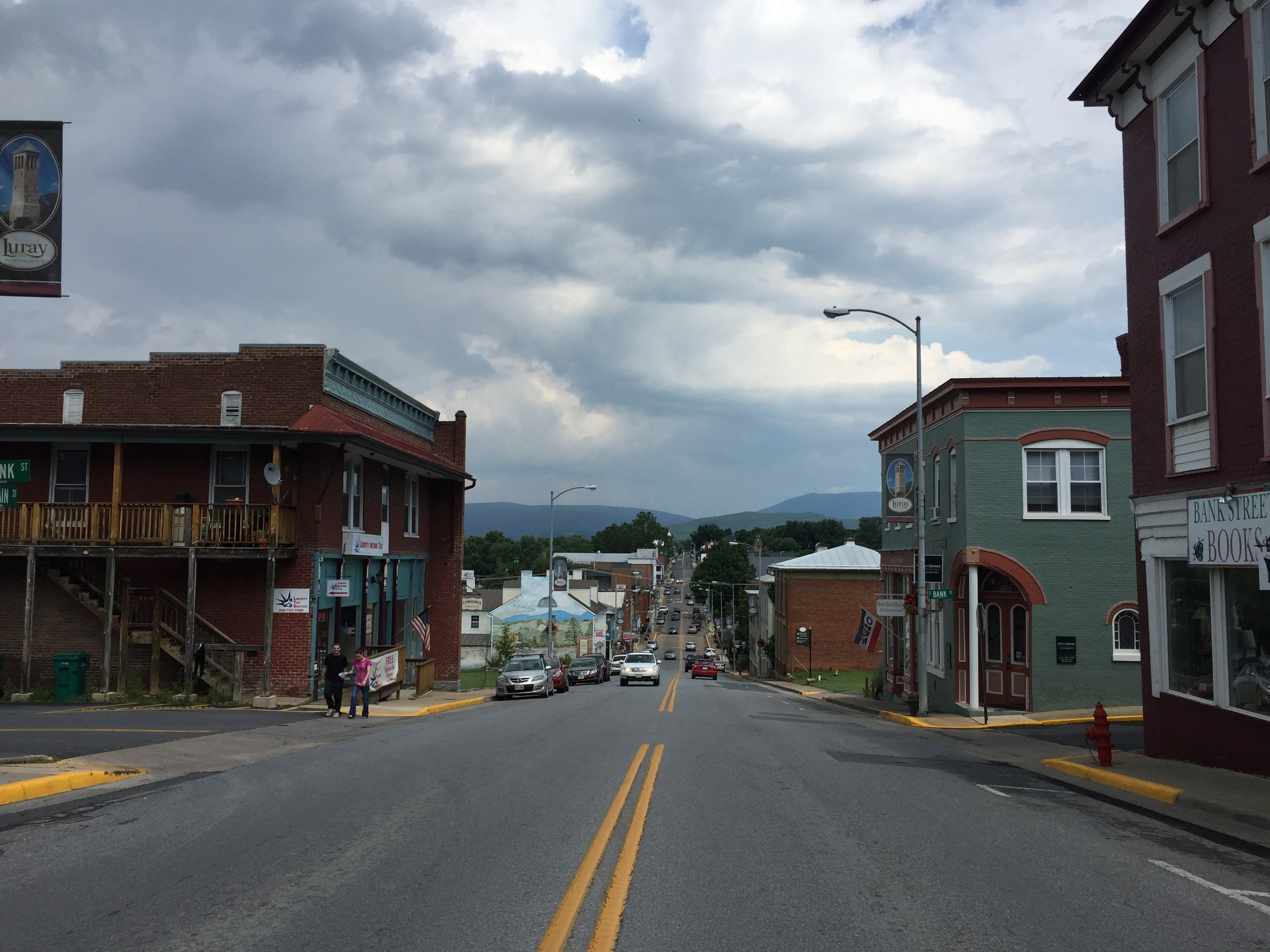 View east along U.S. Route 211 Business (Main Street) at Bank Street in Luray, Page County, Virginia